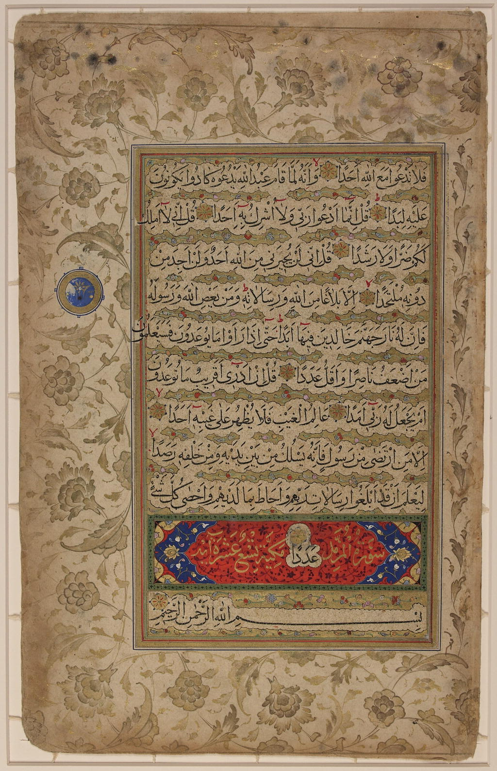 The terminal verses (18-28) of the 72nd chapter of the Qur'an entitled al-Jinn (the Spirits), as well as the heading and introductory bismillah of the next chapter entitled al-Muzzammil (The Enshrouded One). The text is executed in a clear naskh and outlined by gold cloud bands decorated with red and blue flowers. Diacritics are executed in black ink, while some pronunciation and reading signs are picked out in red ink. Verse markers consist of six-petalled gold rosettes decorated with blue dots and red lines. The script, text layout, and illumination are all typical of Safavid Qur'ans produced during the second half of the 16th century in the southwestern Iranian city of Shiraz.